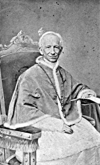 Portrait of Pope Leon XIII